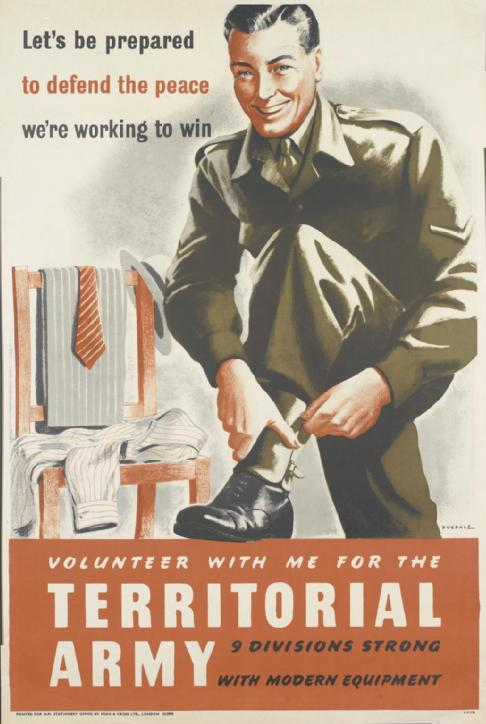 Volunteer with Me for the Territorial Army whole: the image occupies the upper three-quarters. The title is separate and positioned in the lower quarter, in white, set against a brown background. The text is integrated and placed in the upper left, in black and brown, and separate and located in the lower quarter, in black. image: a three-quarter length depiction of a Lance Corporal in the Territorial Army smiling as he attaches a puttee around his ankle. His civilian clothes lay on a chair beside him. text: Let's be prepared to defend the peace we're working to win DUGDALE VOLUNTEER WITH ME FOR THE TERRITORIAL ARMY 9 DIVISIONS STRONG WITH MODERN EQUIPMENT PRINTED FOR H.M. STATIONERY OFFICE BY FOSH AND CROSS LTD., LONDON 51/2995